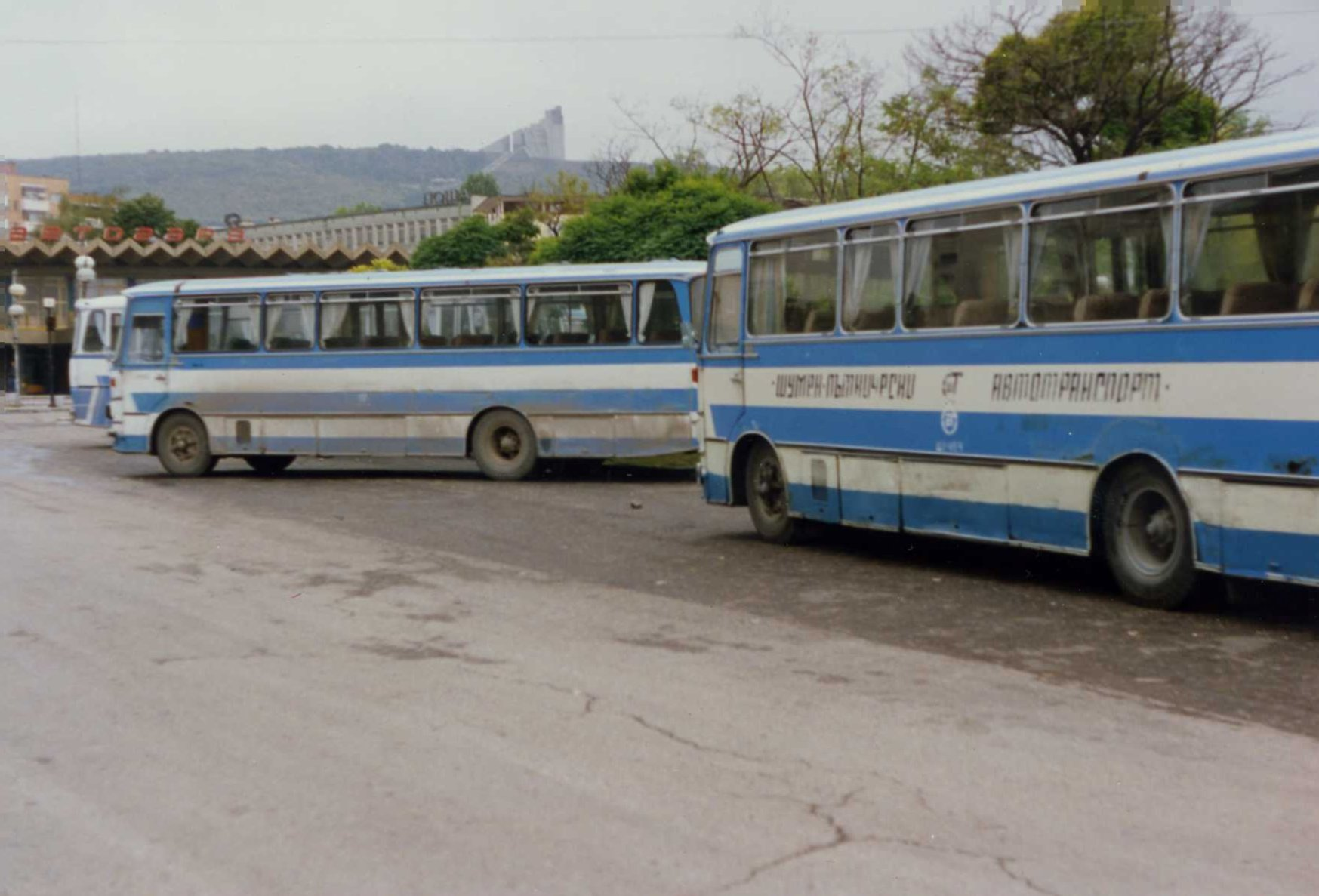 A group of fine, but a bit dirty Bulgarian made Chavdar buses perhaps the 11M3 model. A bit out of focus, sorry. Chavdar buses in Shumen, Bulgaria, October 1993.